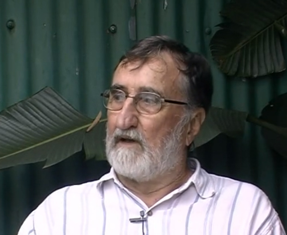 A video still from an interview with Harold Strachan